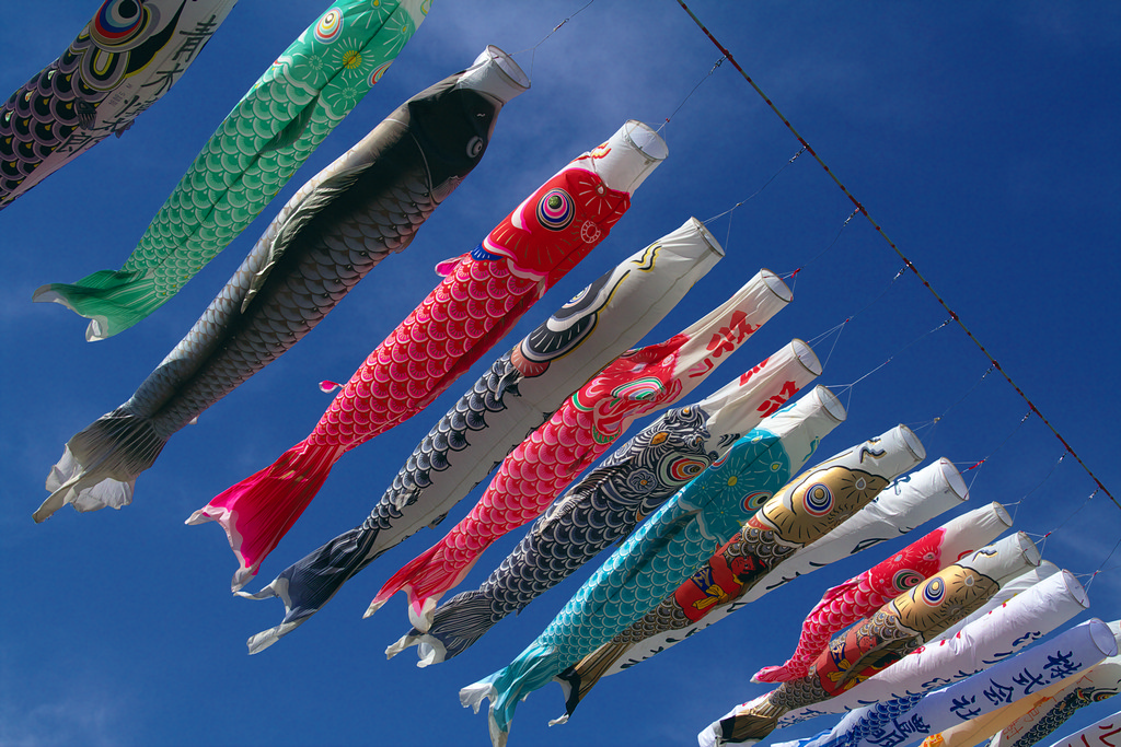 Carp streamer in Sagamihara